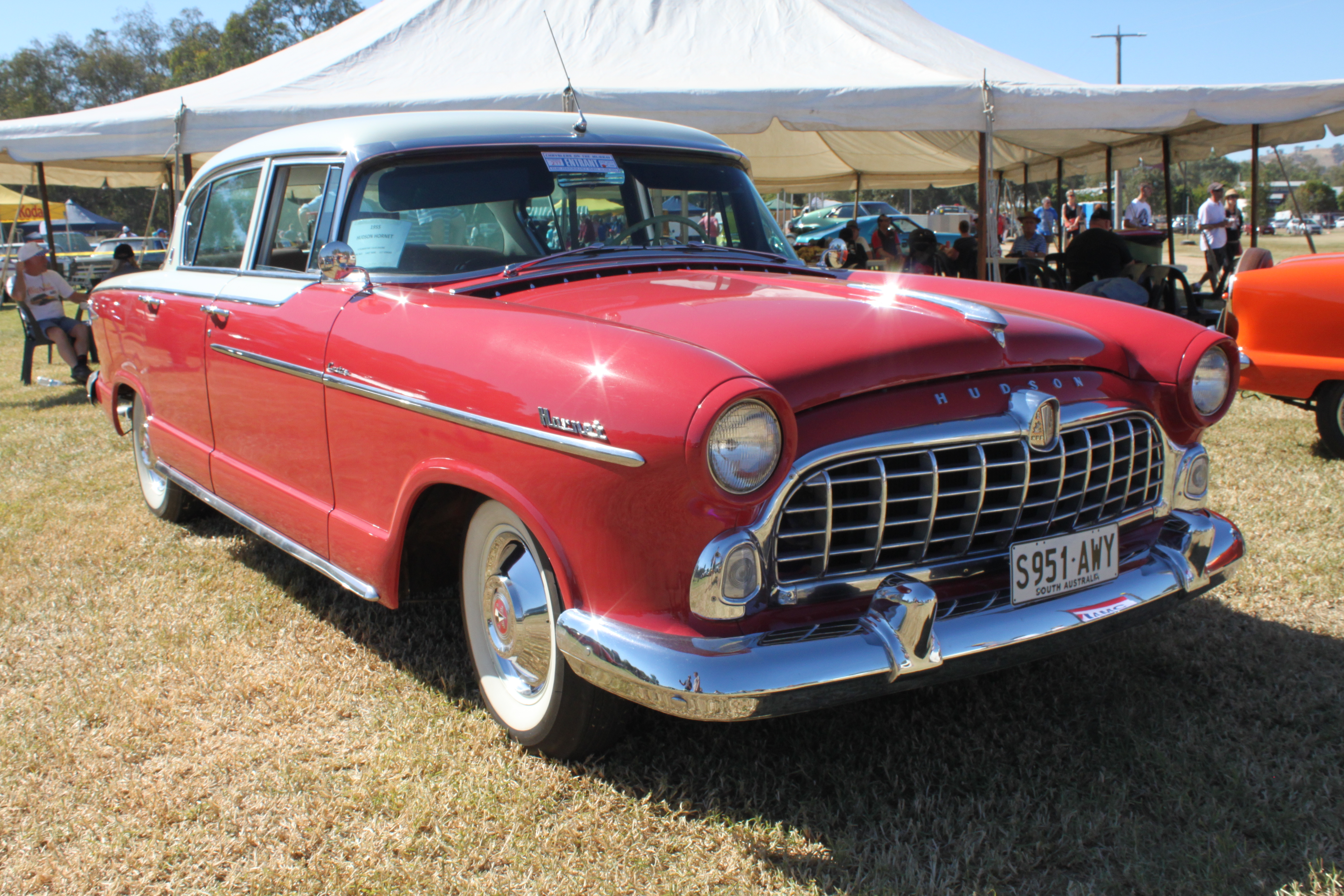 Chryslers on the Murray 2015